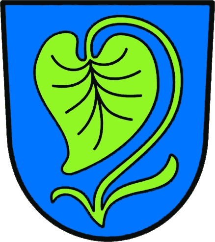 Municipal coat of arms of Heřmanův Městec town, Chrudim District, Czech Republic.